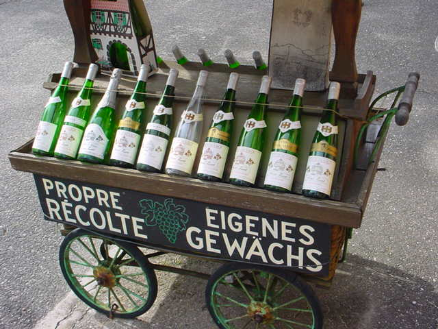 Win bottles on old wooden trolley with bilingual signage